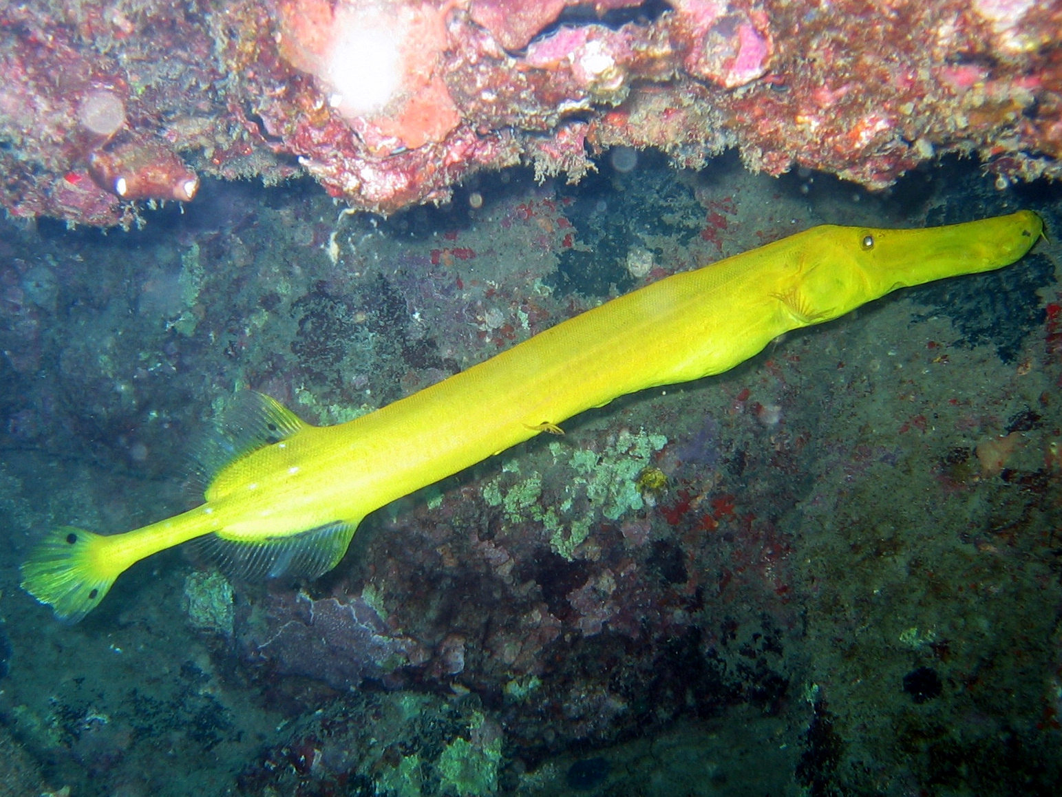 A yellow trumpet fish (Aulostomus chinensis), photographed near Nha Trang, Vietnam